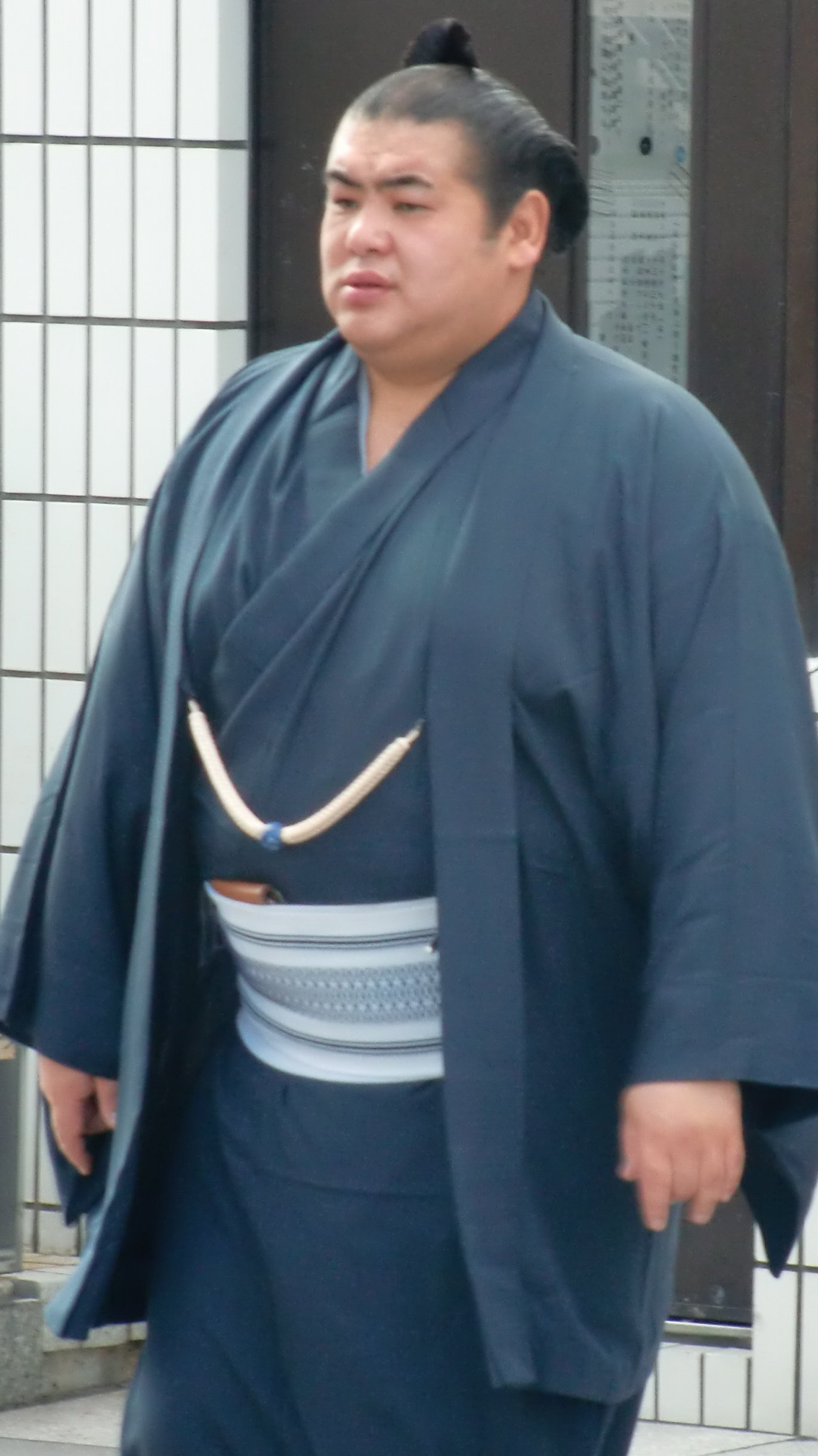 taken at 2010 Sep tournament